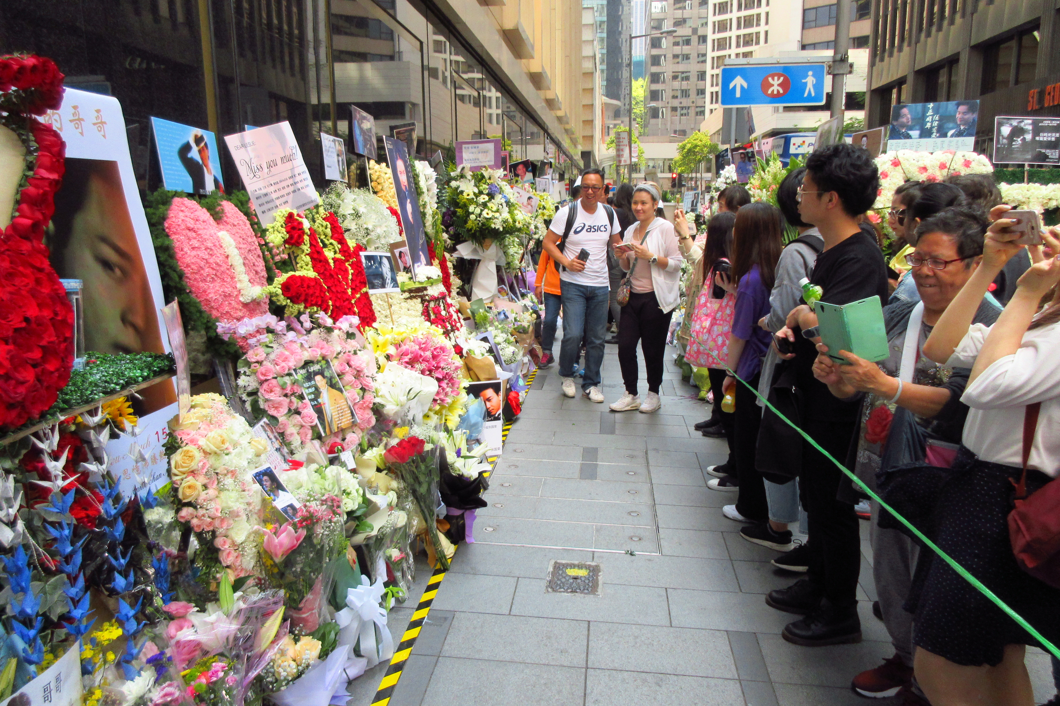 HK 中環 Central 雪廠街 Ice House Street 張國榮 memorial party in April 2018